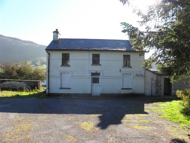 Fintown Railway Station. For a while this was used as a Health Centre More about the Fintown Railway here